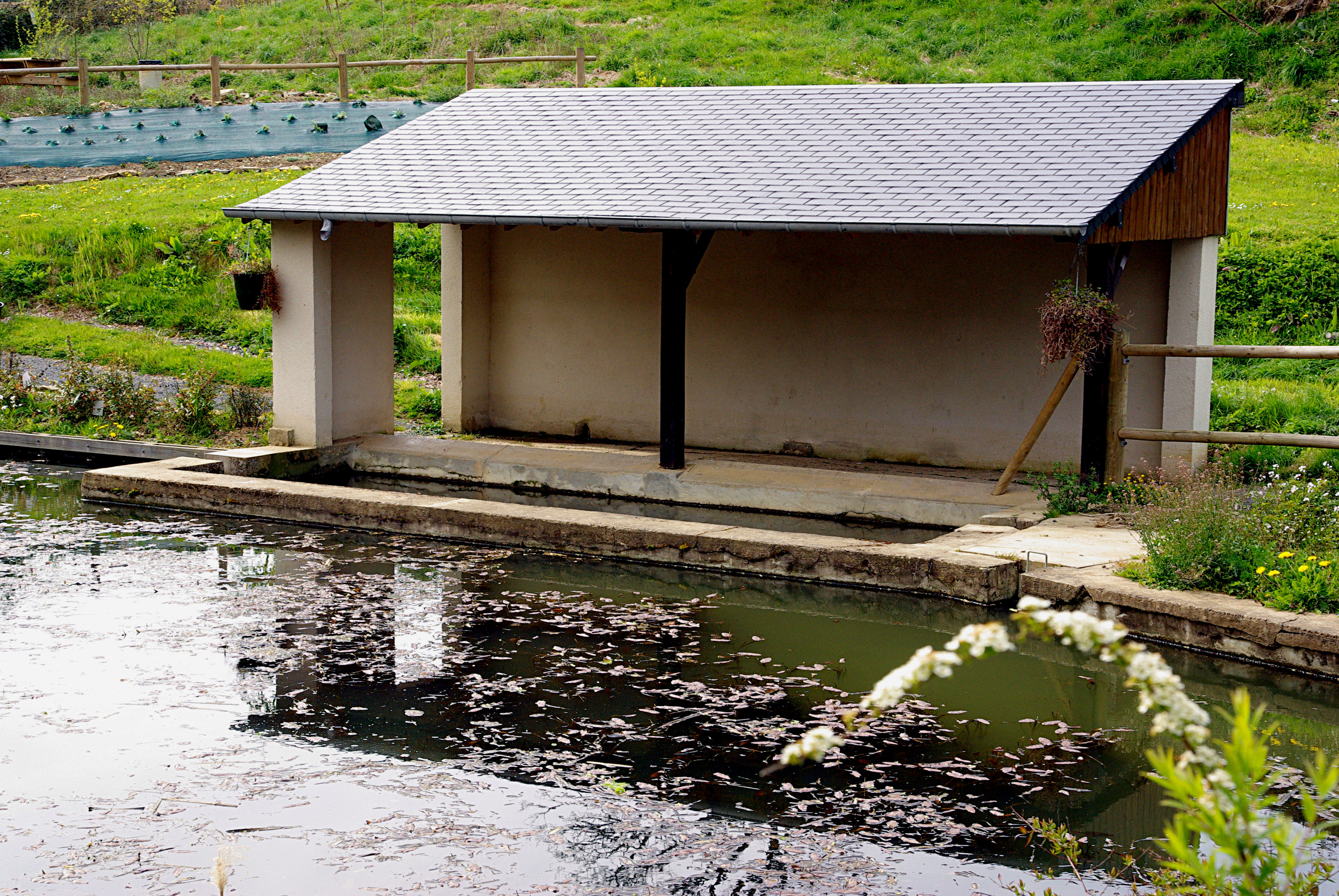 Wash house in Goupillières Calvados 14 France